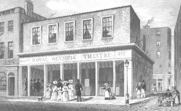 Royal Olypmic Theatre. Drawn by Tho. H. Shepherd.